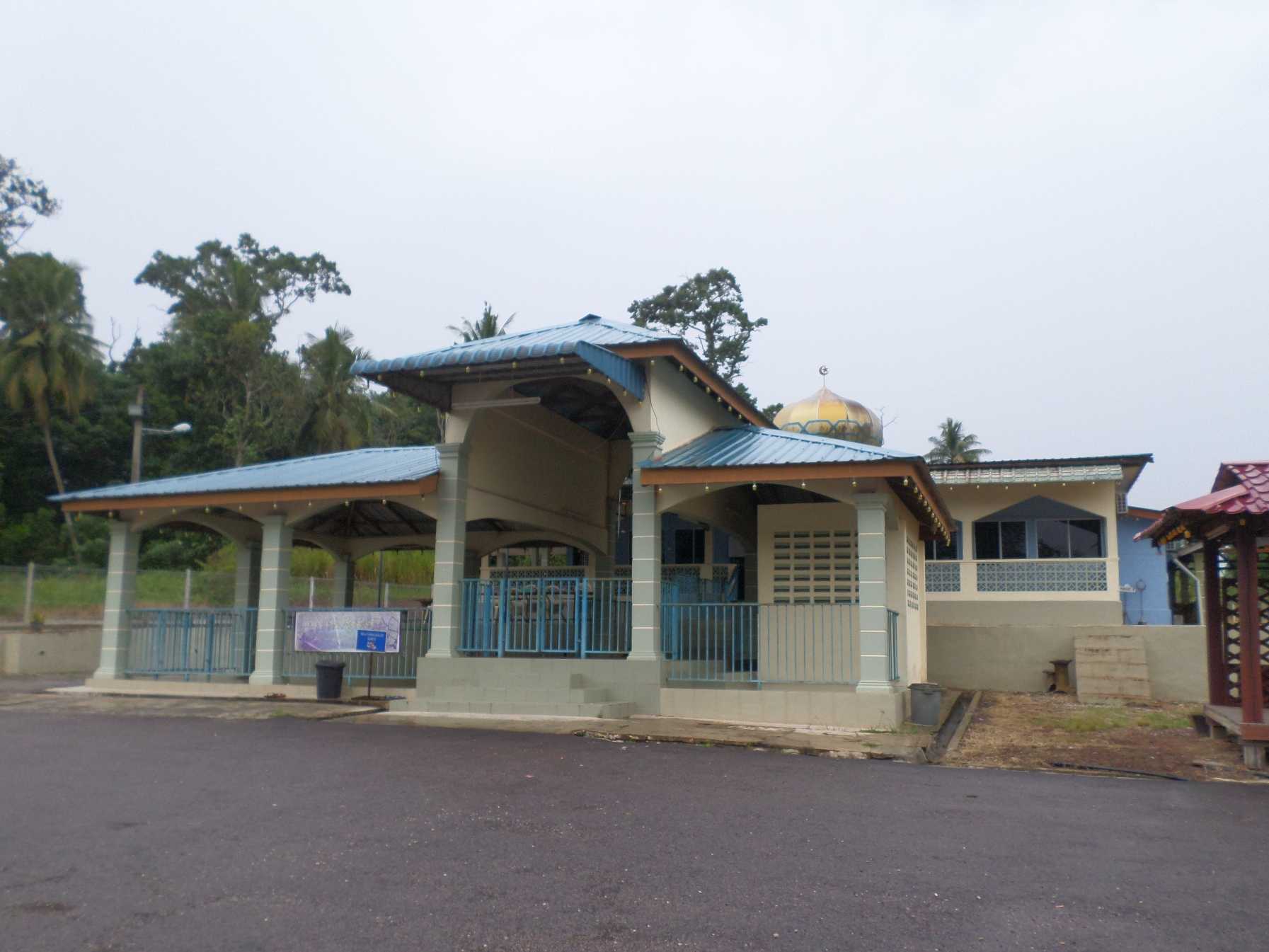 Al-Ubudiyah Jamek Mosque, Sri Macap Village, Simpang Renggam, Kluang, Johor, Malaysia